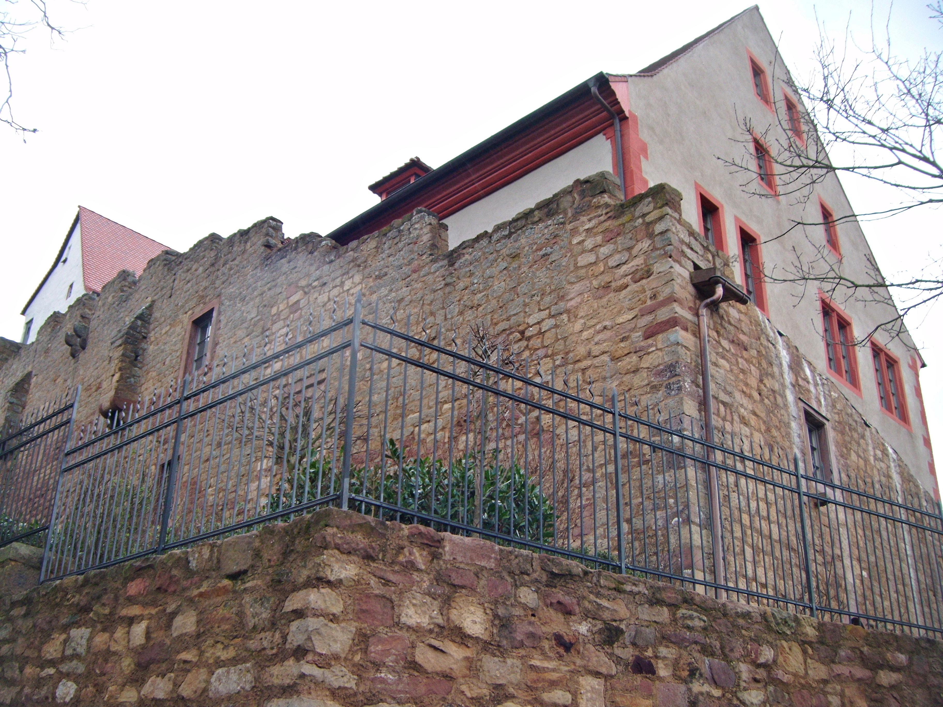 Bischöflich Wormser Kellerei Neuleiningen